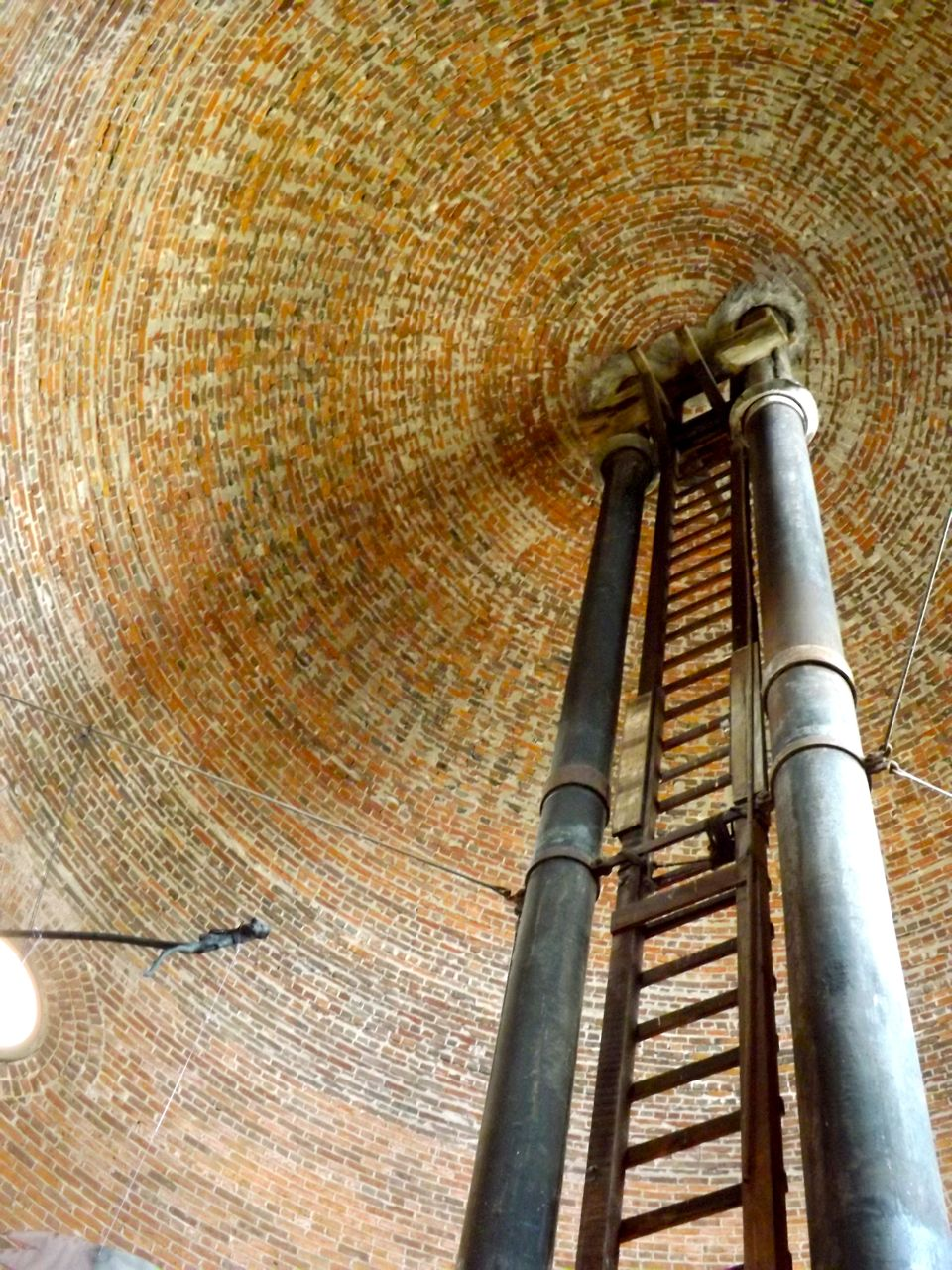 Interior of the old Fresno Water Tower, California, taken on a walking tour of Fresno in January 2014.